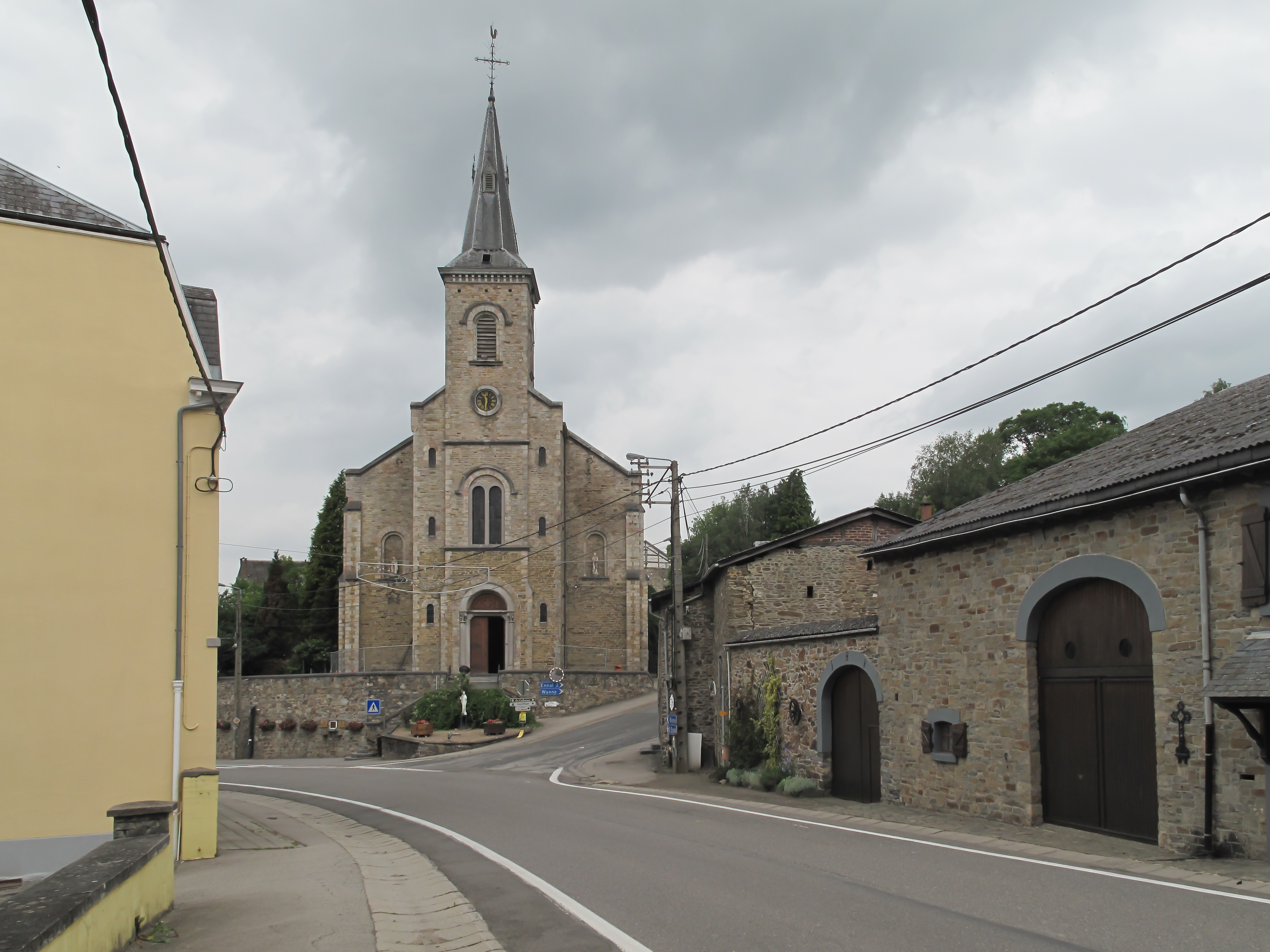 Grand Halleux, church: église Saint Laurent